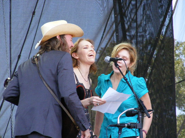 Photo by Ron Baker.